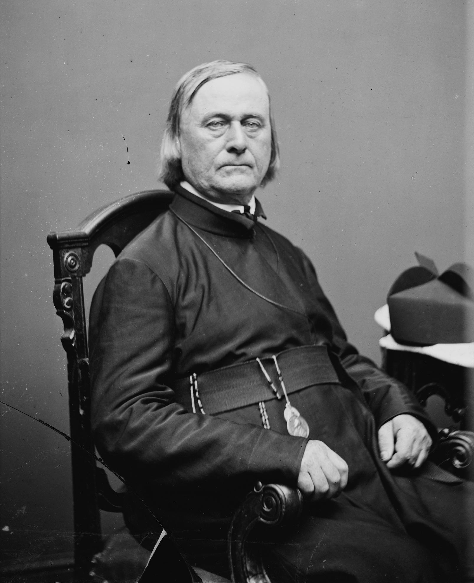 Pierre-Jean De Smet. Library of Congress description: "Rev. Father Pierre Jean De Smet (1801-1873) Catholic missionary to Indian Territory".